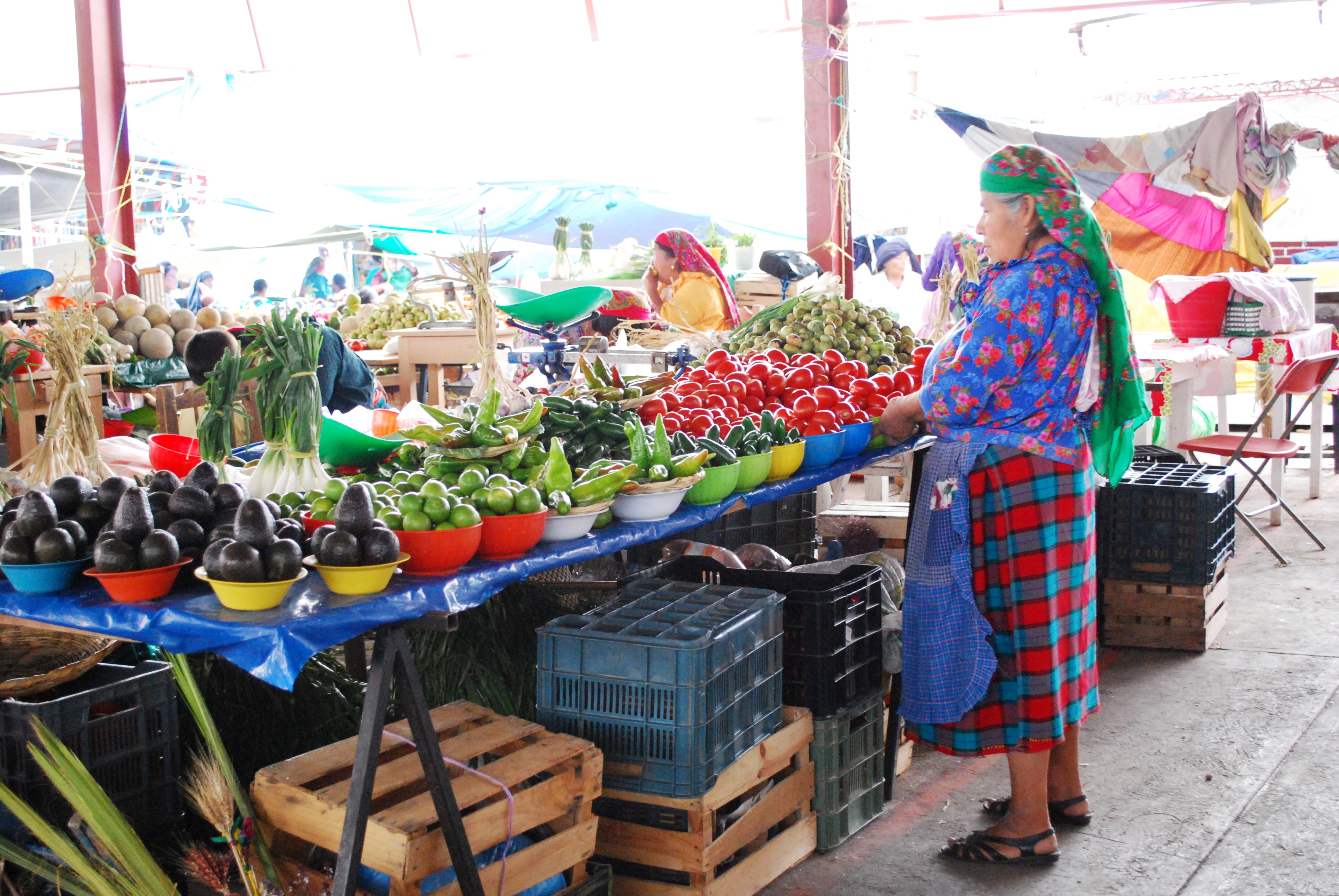 Woman selling fruits and vegetables in the municipal market of Tlacolula, Oaxaca, Mexico